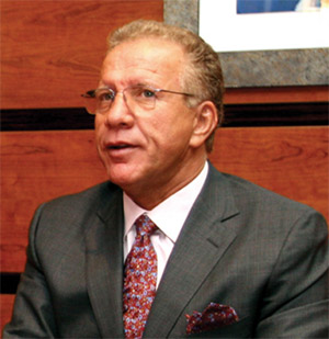 Picture of the president and CEO of Mabetex Group